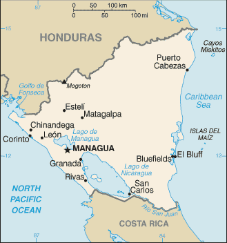 Map of Nicaragua.